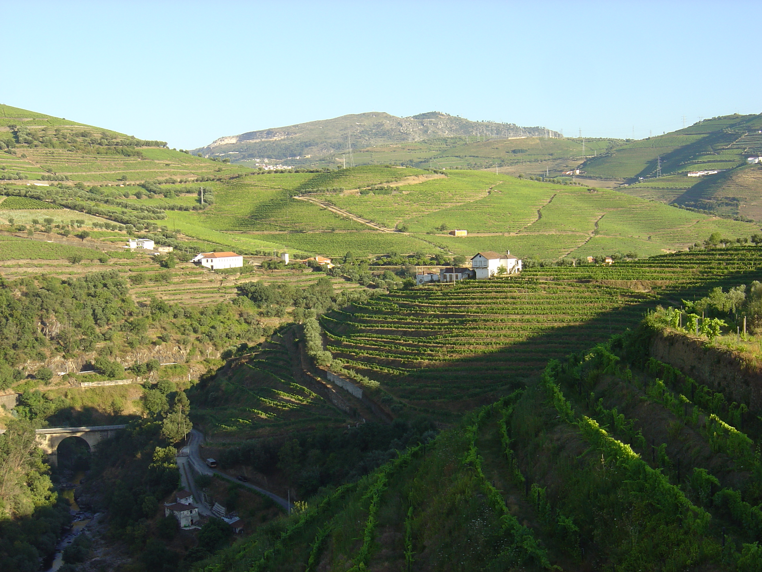 Peso da Régua, Portugal